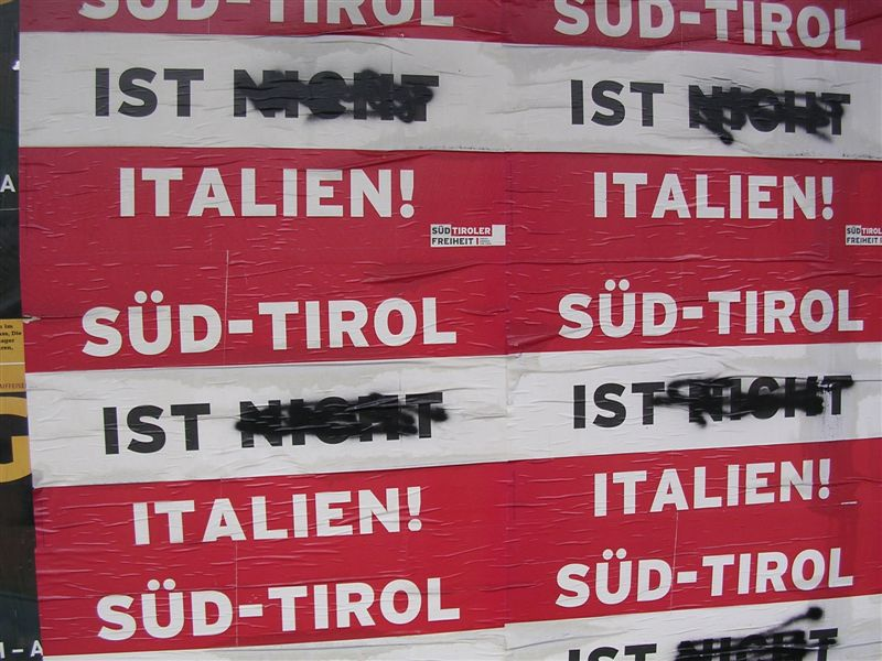 Poster in Meran, Italy. The question of the identity of the inhabitants of South Tyrol remains the focus of debate and controversy. Poster a Merano, Italia. La questione dell'identità degli abitanti del Sud Tirolo rimane al centro del dibattito e della controversia.